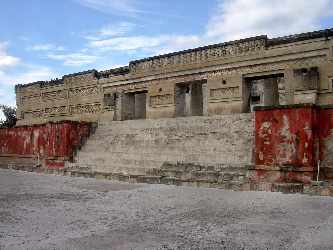 Palace in Mitla, Mexico, with original paint on the walls